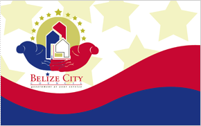 Flag of Belize City.